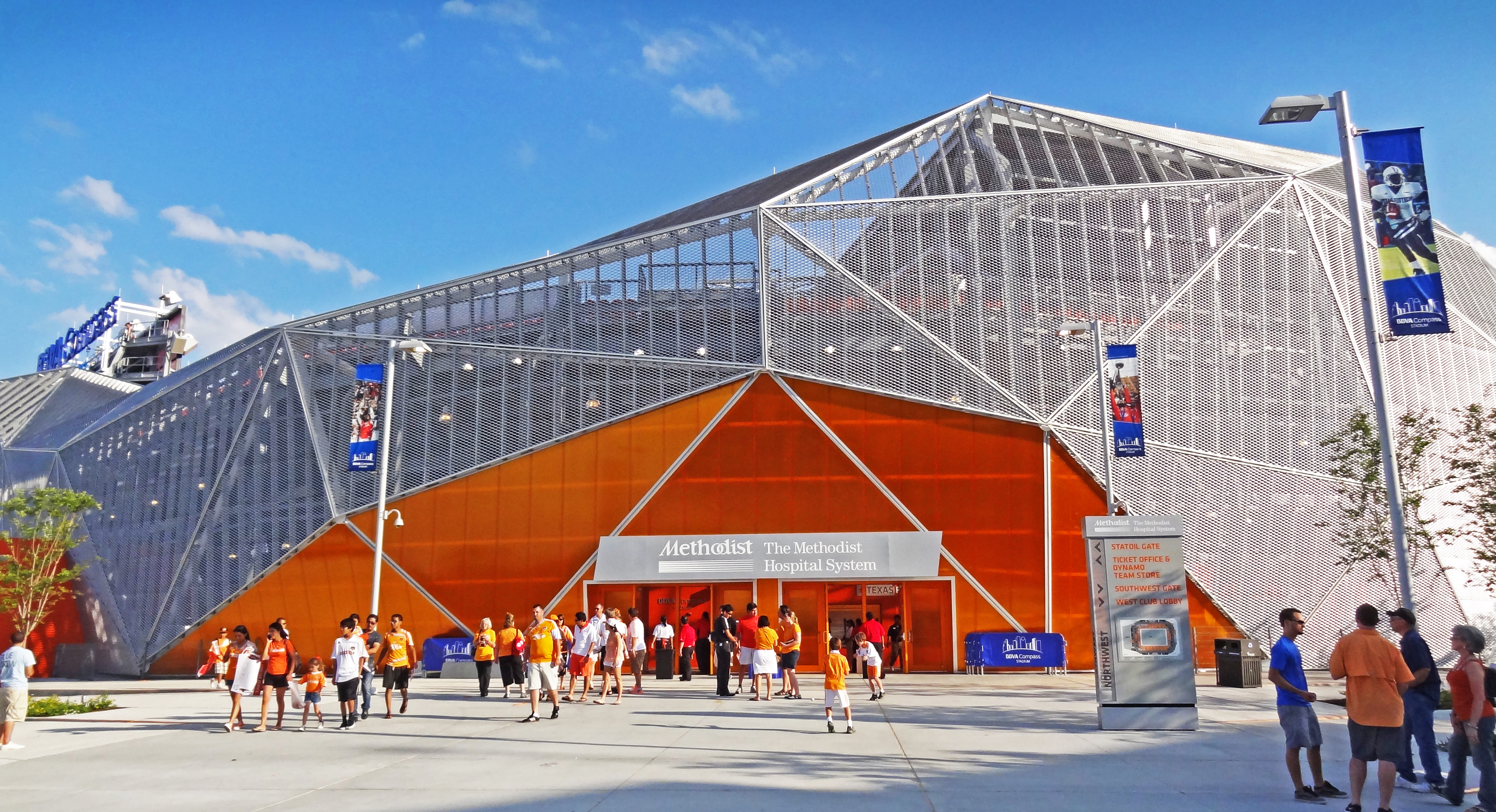 Photo by Paul Duron, Typical geometric entrance to BBVA Compass Stadium located at each corner of the stadium.